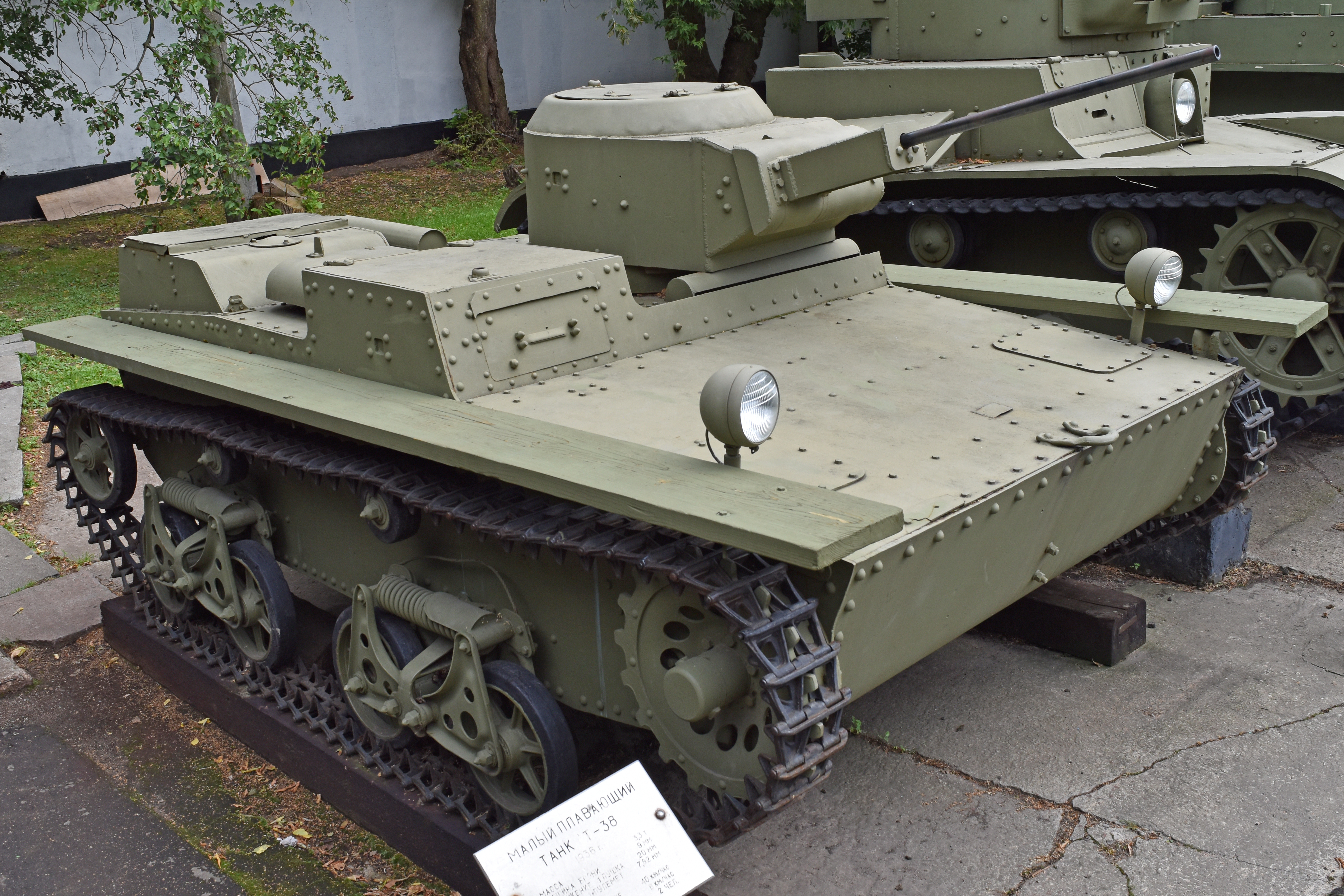 Soviet WW2 era Amphibious light tank Manufacturer:- Factory No37 Built:- 1937 to 1939 Total Production:- 1,340 In service:- 1937 to 1943 Main Armament:- 7.62mm DT machine gun The T-38 was an amphibious Scout tank developed from the T-37A it was intended to replace. It did not present any significant improvement over its predecessor and was soon replaced itself by the T-40. This example is on display at the Central Armed Forces Museum, Moscow, Russia. 26th August 2017